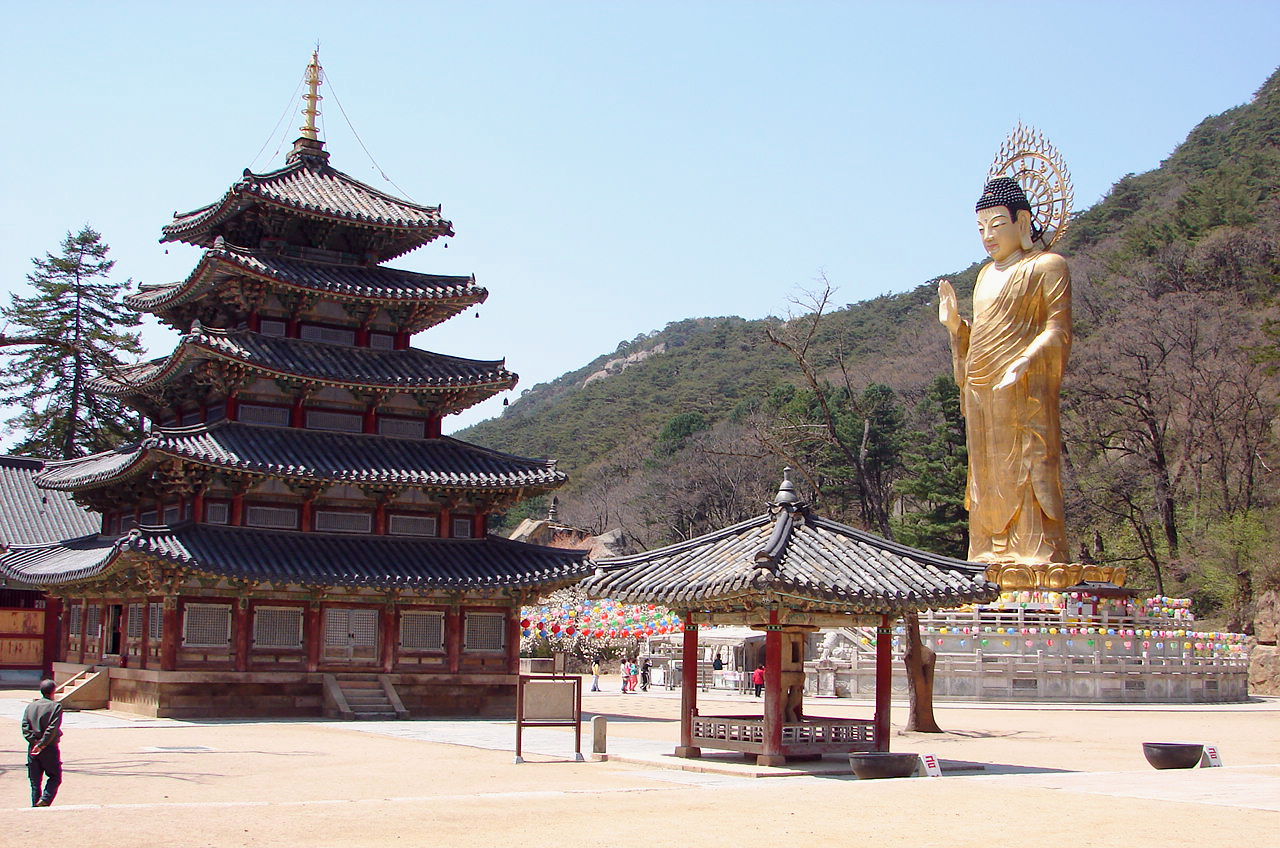 Palsangjeon (Hall of Eight Pictures) is located at Beopjusa (Buddhist temple) originally built in 553, rebuilt beginning in 1605 being completed in 1626, and renovated again in 1968. Palsangjeon is a five story wooden pagoda with the four interior walls having paintings depicting the life of Buddha. Palsangjeon is National Treasure of Korea #55.